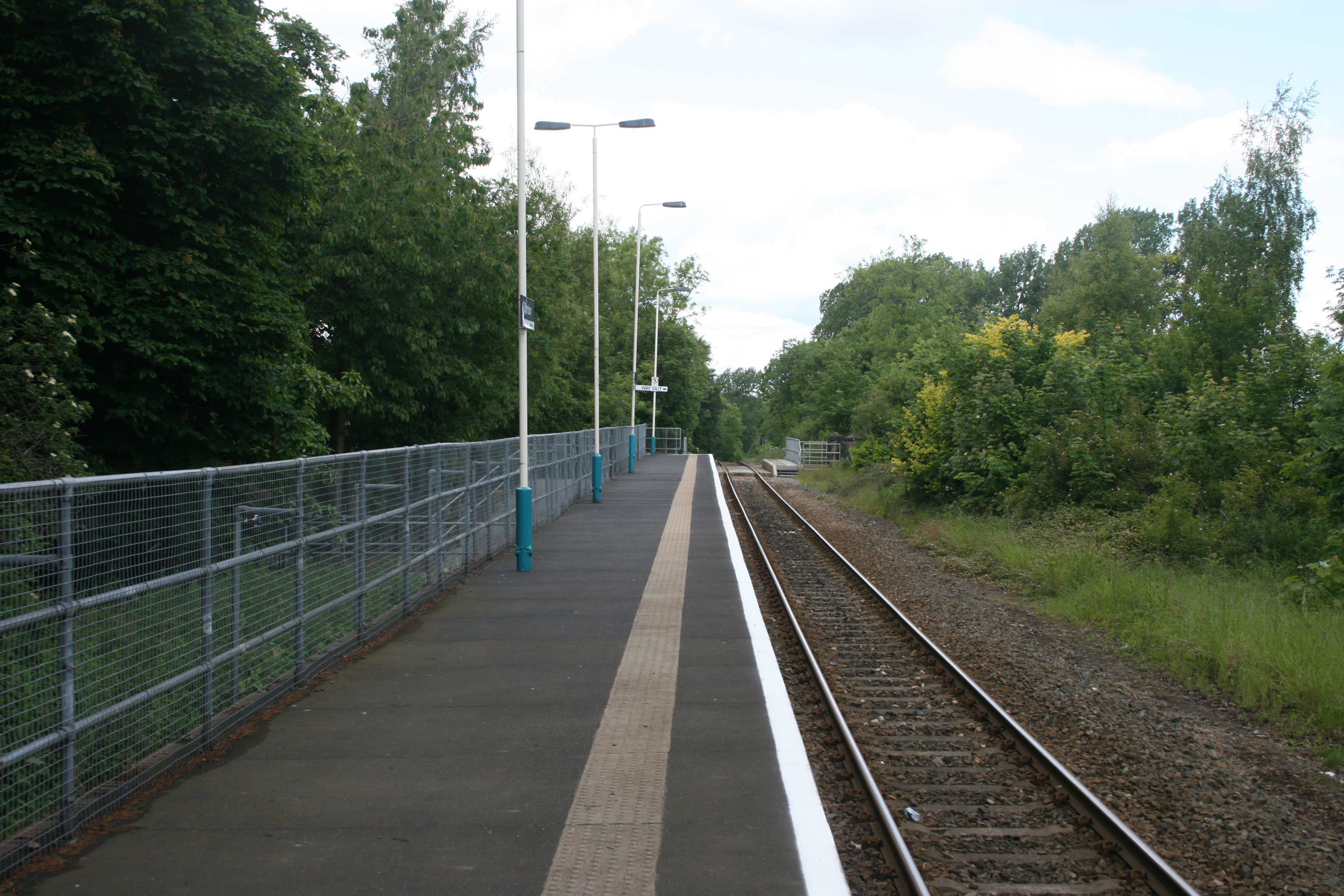 Marton railway station, looking north west towards Middlesbrough.